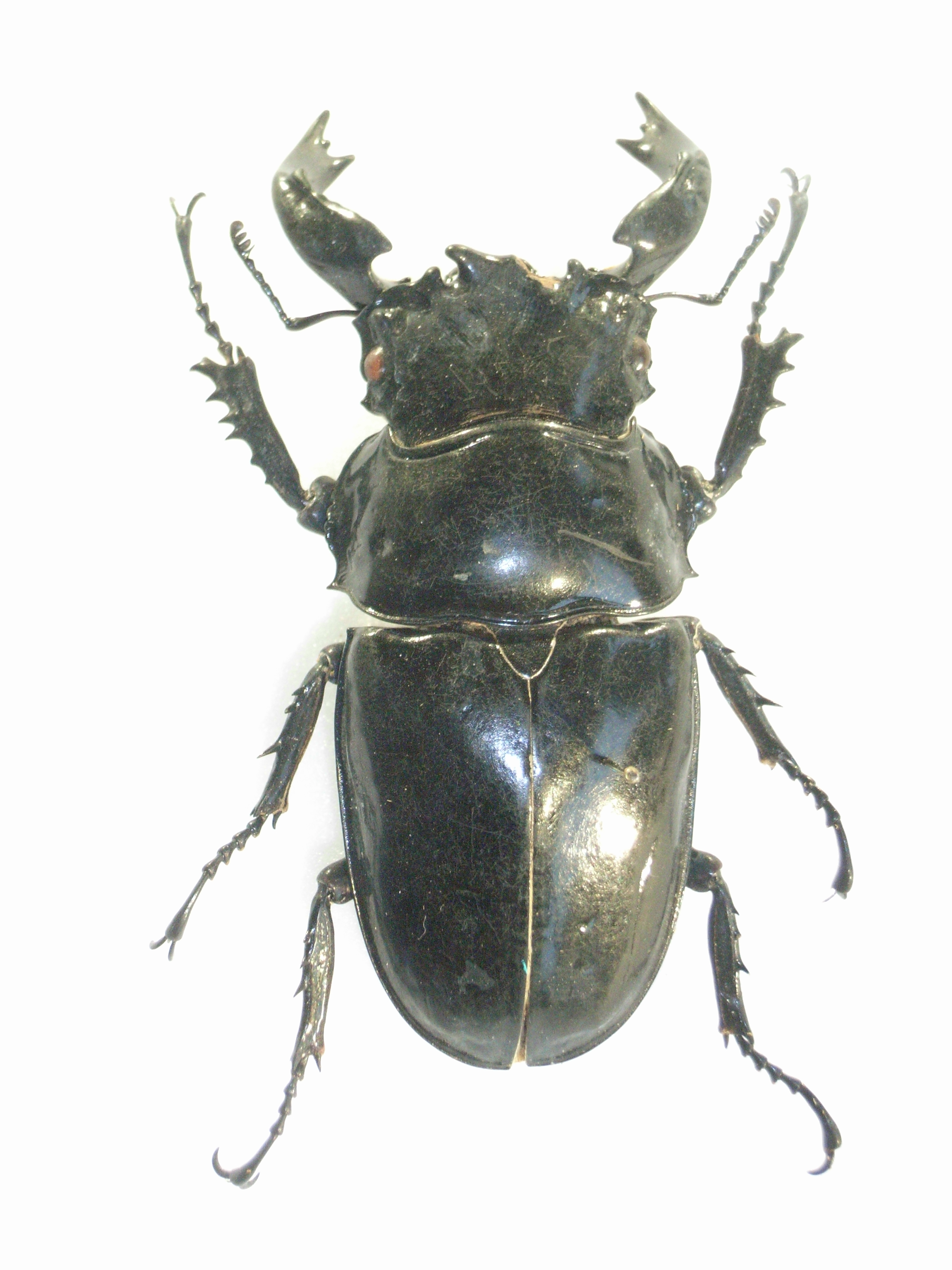 Mesotopus tarandus Ex coll. Felix Stumpe